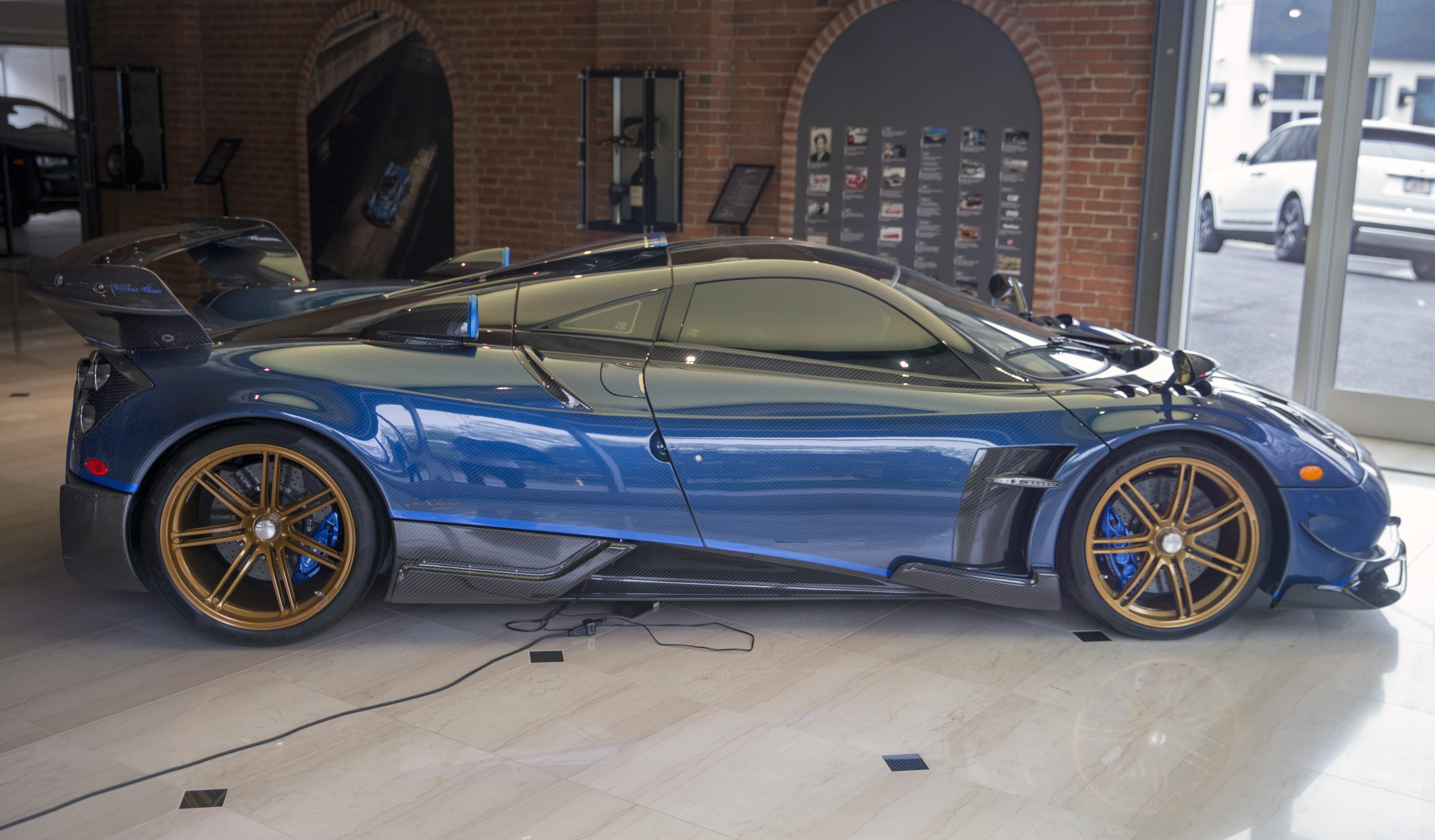 A 2017 Pagani Huayra BC Macchina Volante, a special version of a special edition built in a single example for collector Kris Singh blue carbon fiber extra air intakes italian flag adornment bla-di-bla-di-bla. Currently for sale at an undisclosed amount.